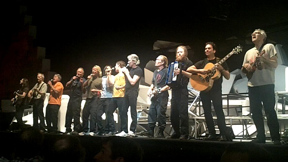 I took this photo from the 2nd row in Kansas City during the final song, "Outside the Wall".